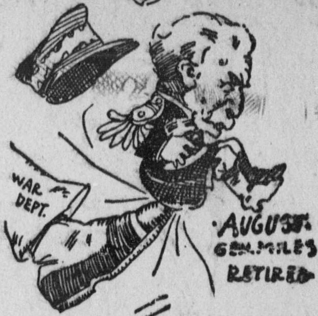 In 1903, Nelson A. Miles turned 64 and was forced to retire from the US Army (as shown in this cartoon by Bob Satterfield).